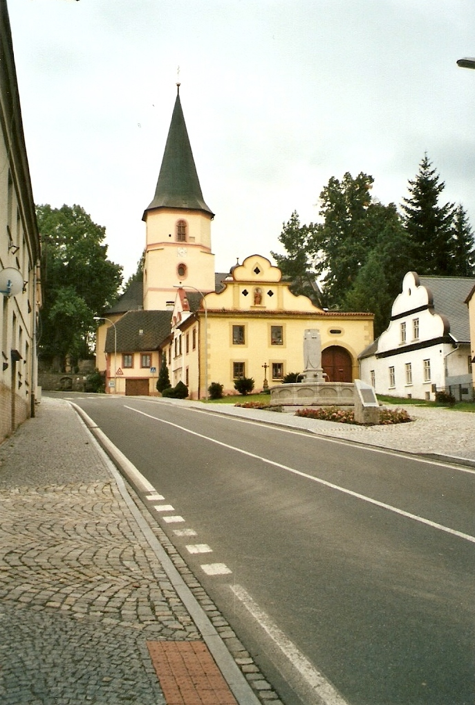 Nýrsko town in Klatovy district, Czech Republic. St Thomas Church.